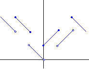 Example of an upper semi-continuous function.